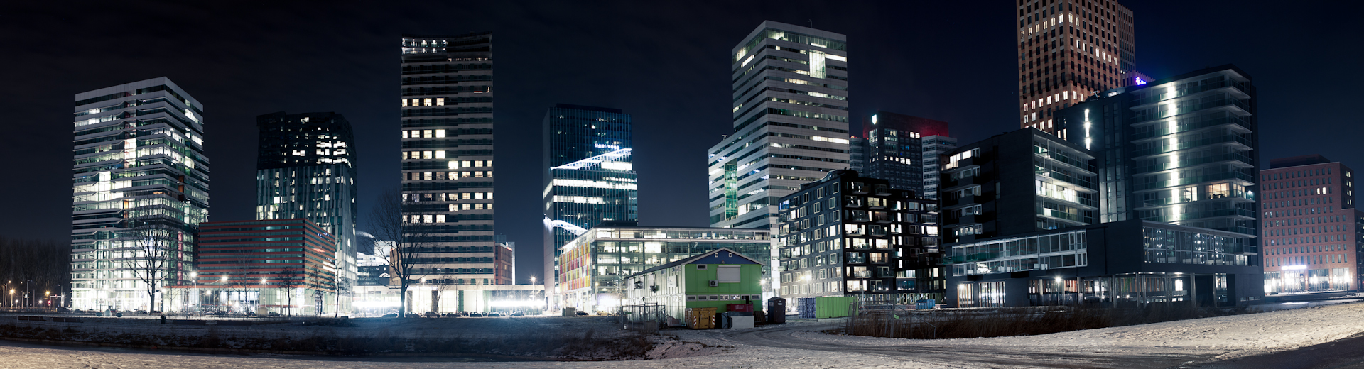 Panoramic view of the Zuidas business district at night in Amsterdam, Netherlands